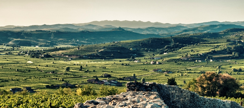 The landscape of Soave Valley